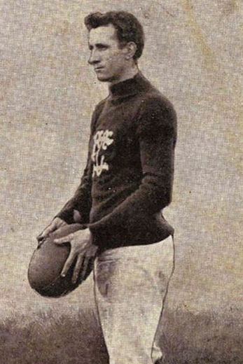 Photograph of Rod McGregor from the 1910 Weekly Times Victorian Footballer Postcard Series